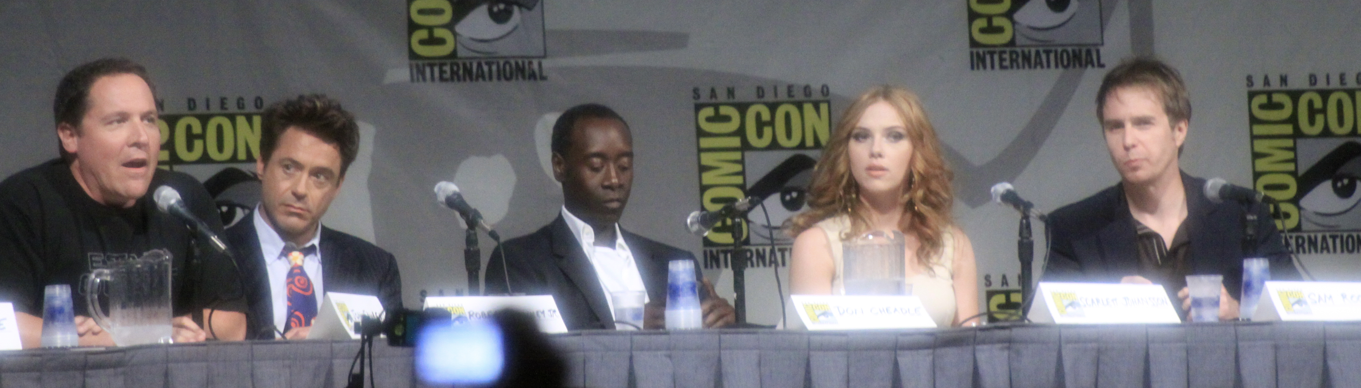 Director Jon Favreau and cast members Robert Downey, Jr., Don Cheadle, Scarlett Johansson and Sam Rockwell promoting the film Iron Man 2 at the 2009 San Deigo Comic-Con International.